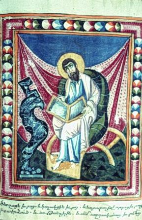 Queen Mlk'e Gospel. Venice, Mekhitarian Library, San Lazzaro, Ms. 1144/86